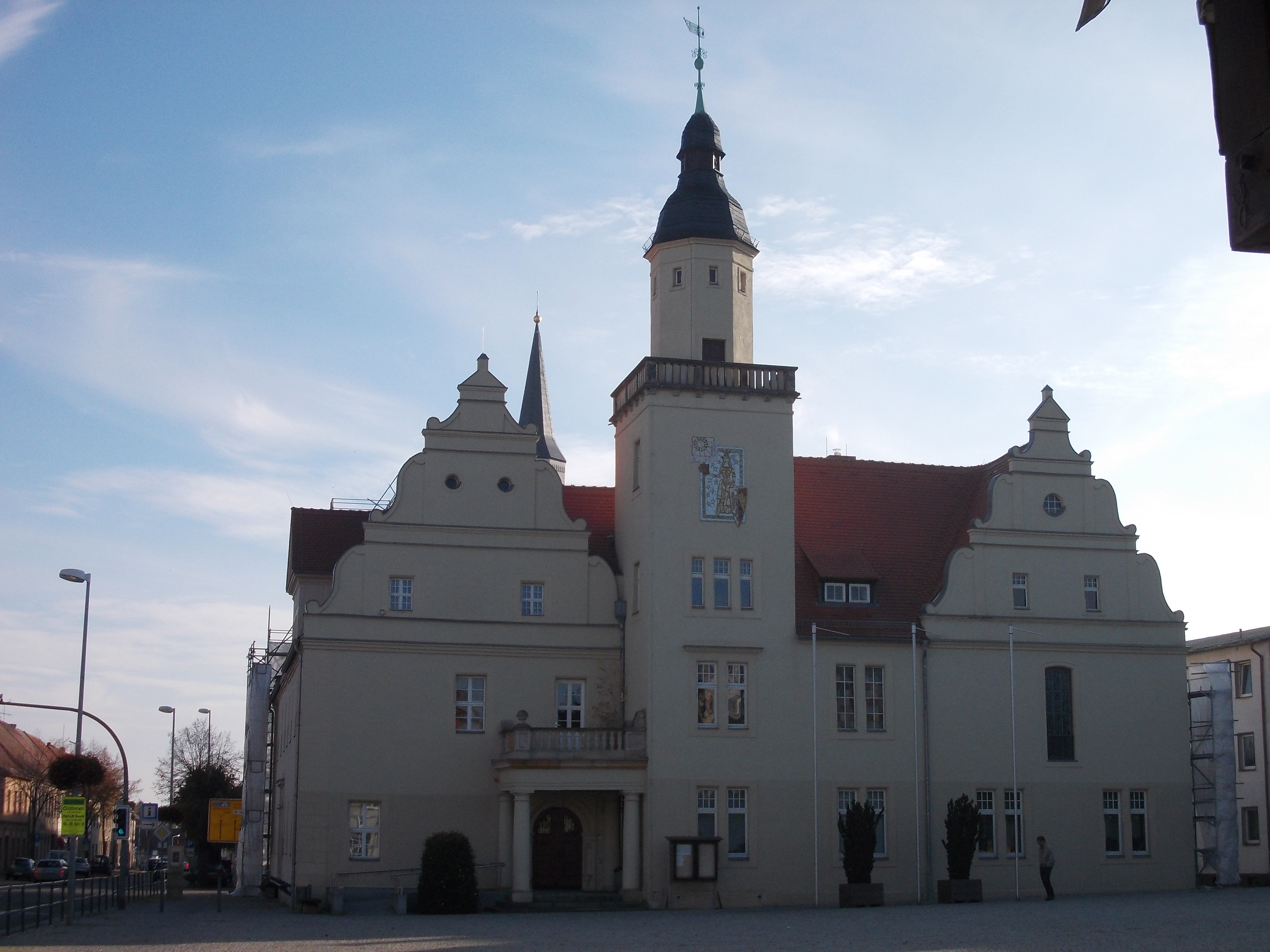 Town hall in Coswig/Anhalt (Wittenberg district, Saxony-Anhalt)